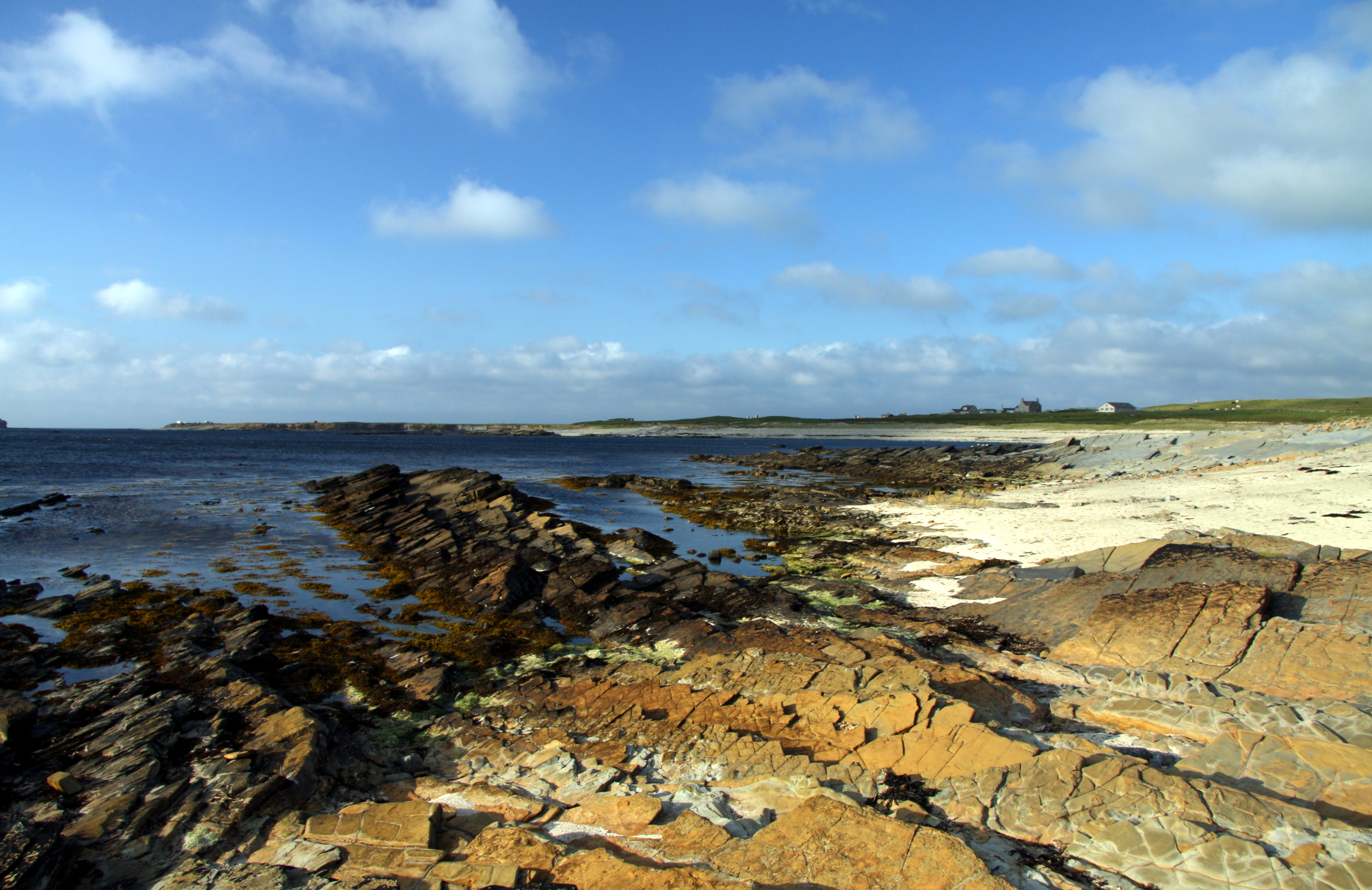 Coasts of the Orkney Islands near Birsay village, Scotland